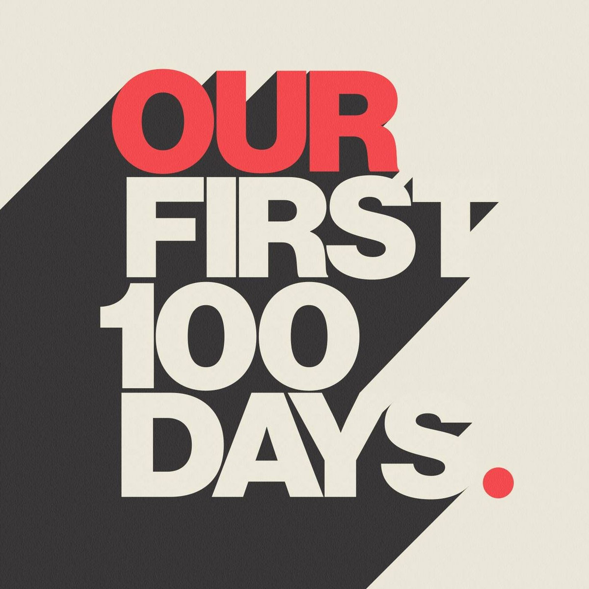 Logo of the anti-Trump musical playlist project Our First 100 Days by label Secretly Canadian